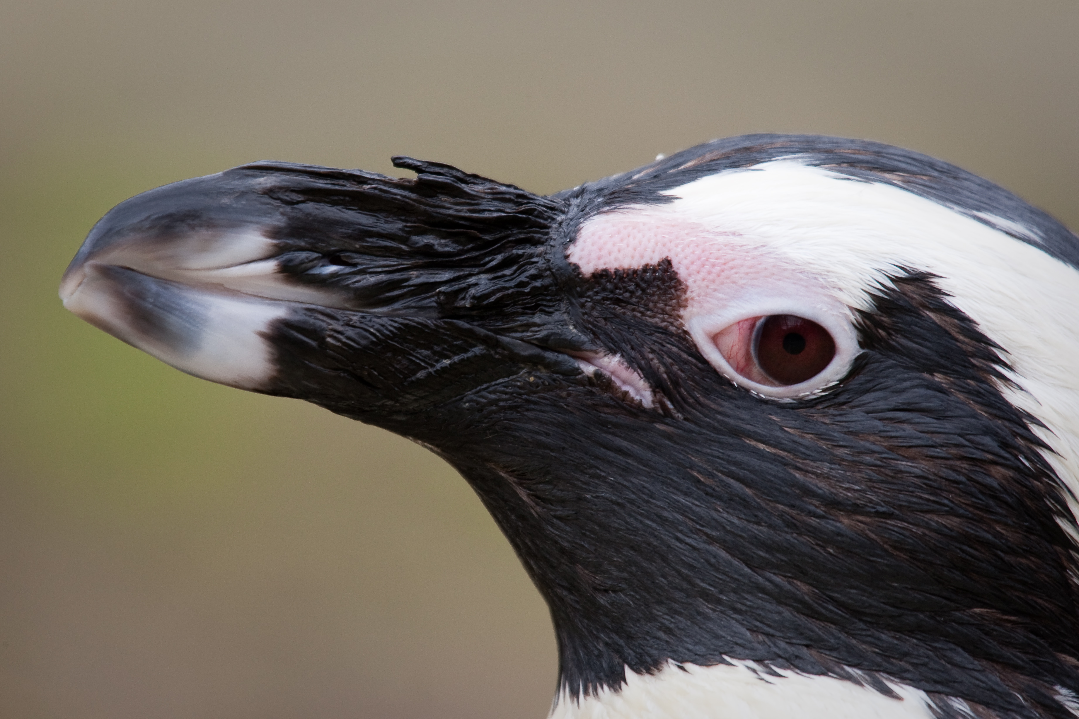 African Penguin at Artis Zoo, Amsterdam, Netherlands.